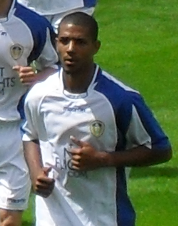 Jermaine Beckford